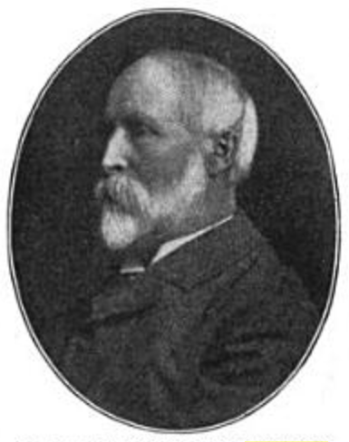 Frederick Stearns, industrialist (pharmaceuticals) and collector of musical instruments (Stearns Collection, University of Michigan). Available at